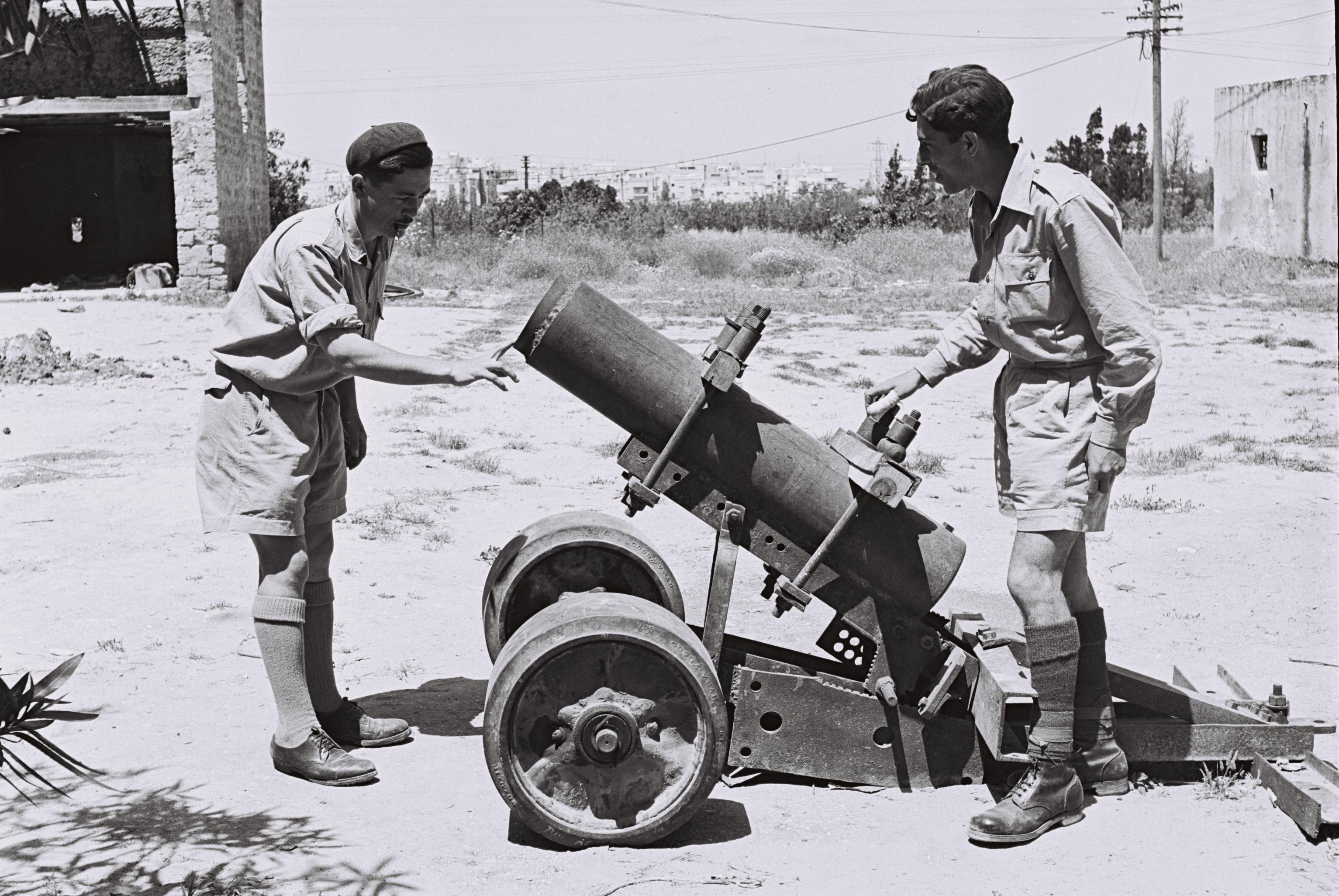 Artillery manufactured by the "Hagana" in a clandestine workshop outside Tel Aviv.